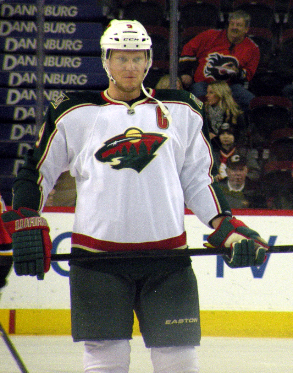 Minnesota Wild forward Mikko Koivu prior to a National Hockey League game against the Calgary Flames, in Calgary.